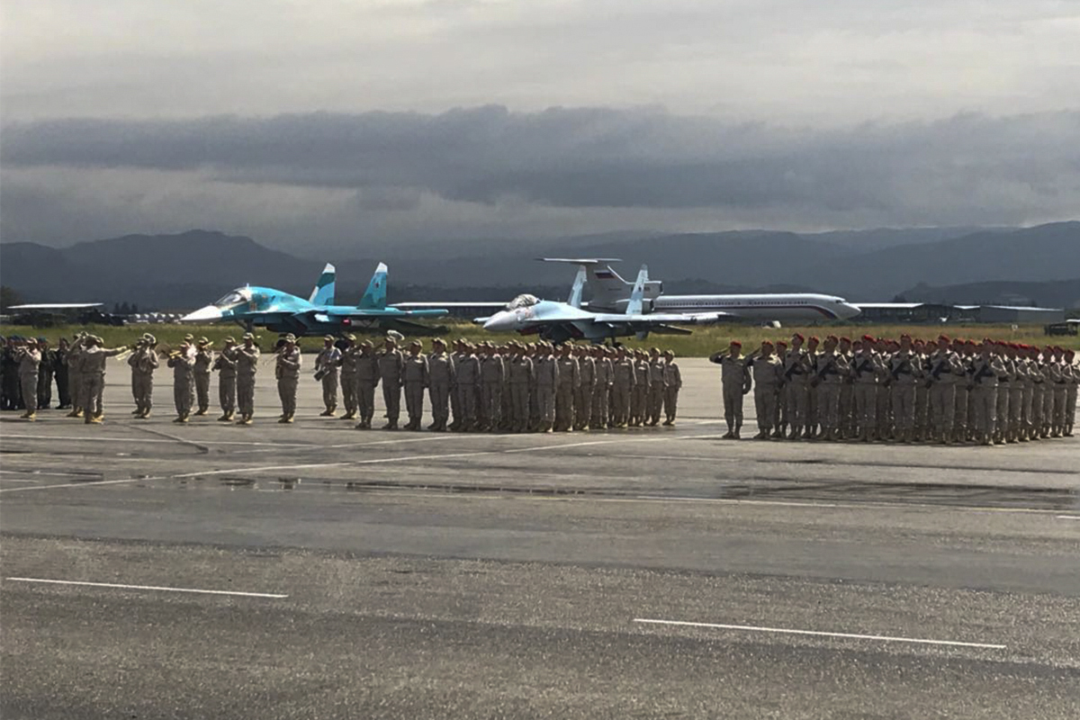 9 мая 2018 года на авиабазе Хмеймим состоялся военный парад, посвященный 73-й годовщине Победы в Великой Отечественной войне